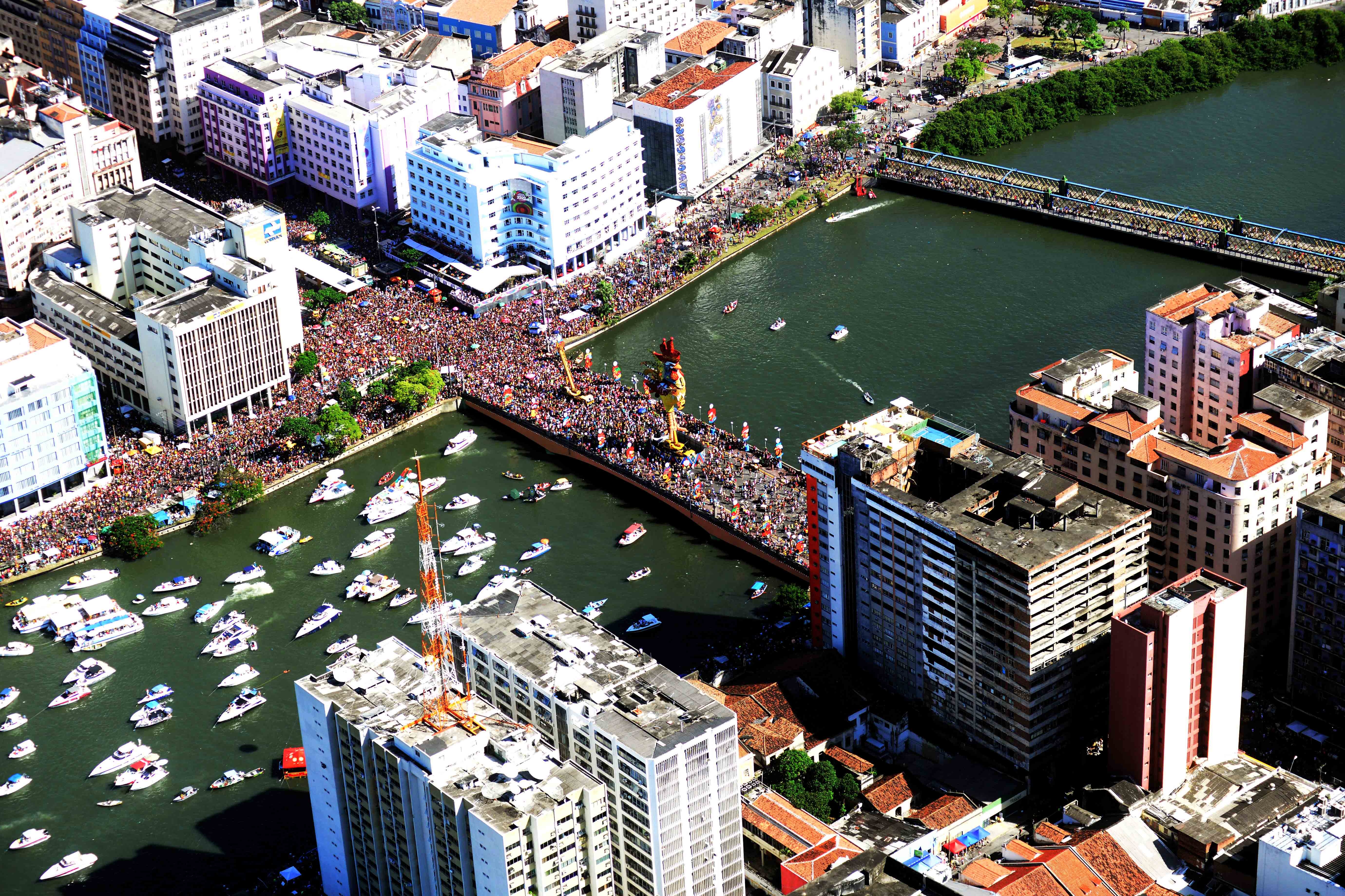 Galo da Madrugada, Carnival 2014 - Recife, Pernambuco, Brazil